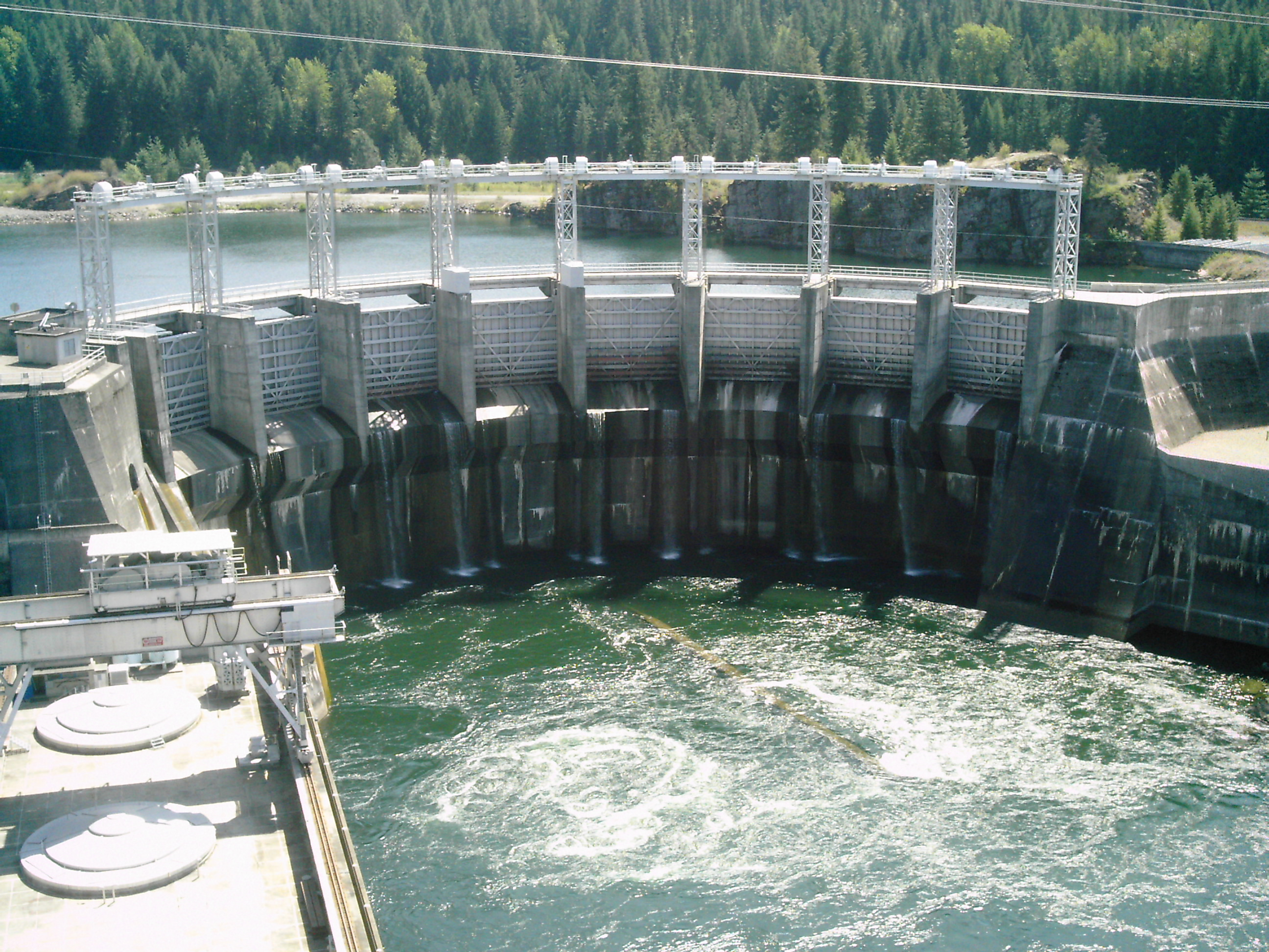 "Vatsun